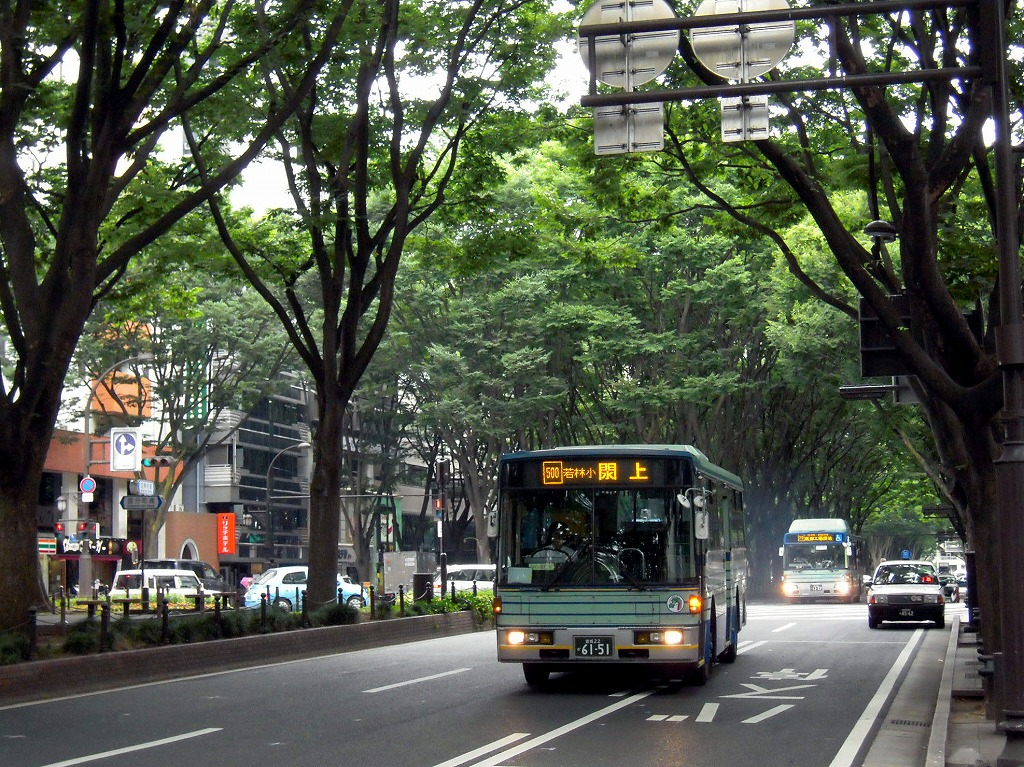 Sendai city bus at Jozenji-dori-ave.